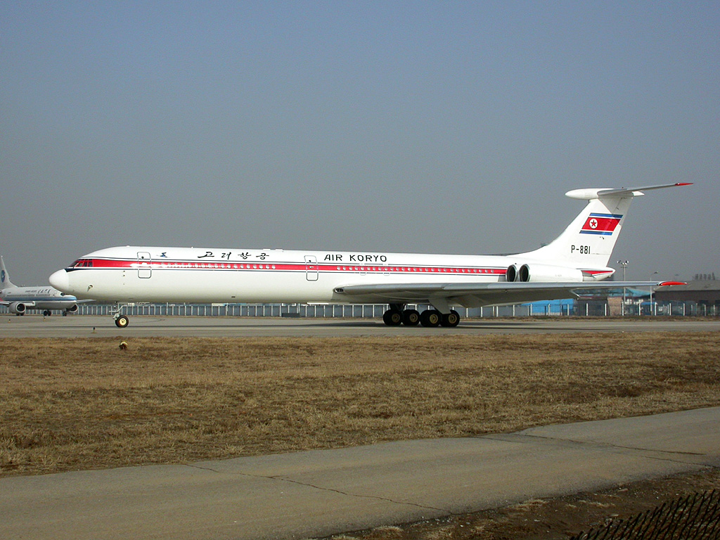 Air Koryo IL-62M in Beijing Capital International Airport photo taken by myself (Nov. 2003)